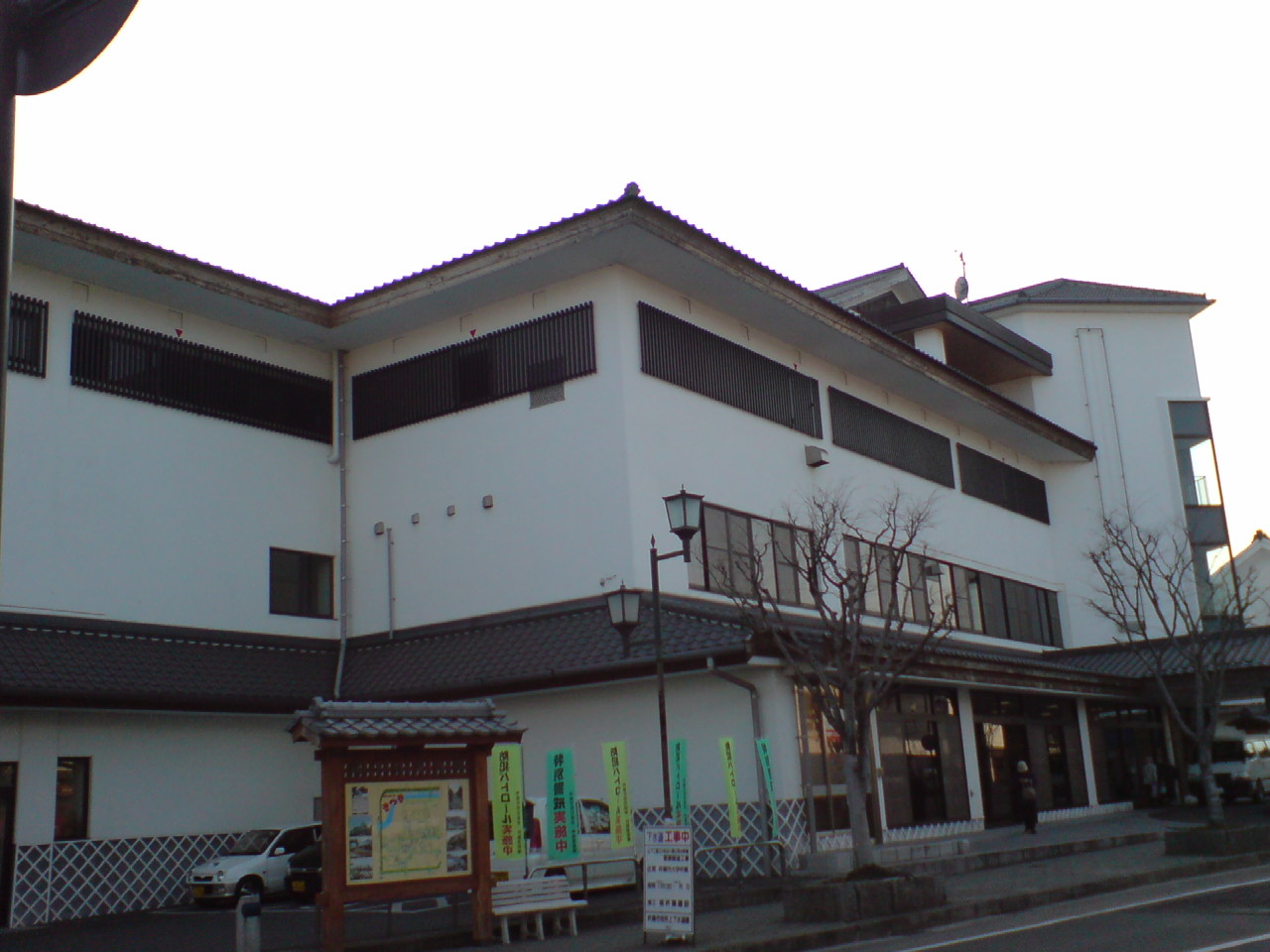 Kitsuki Town Office in Oita , Japan